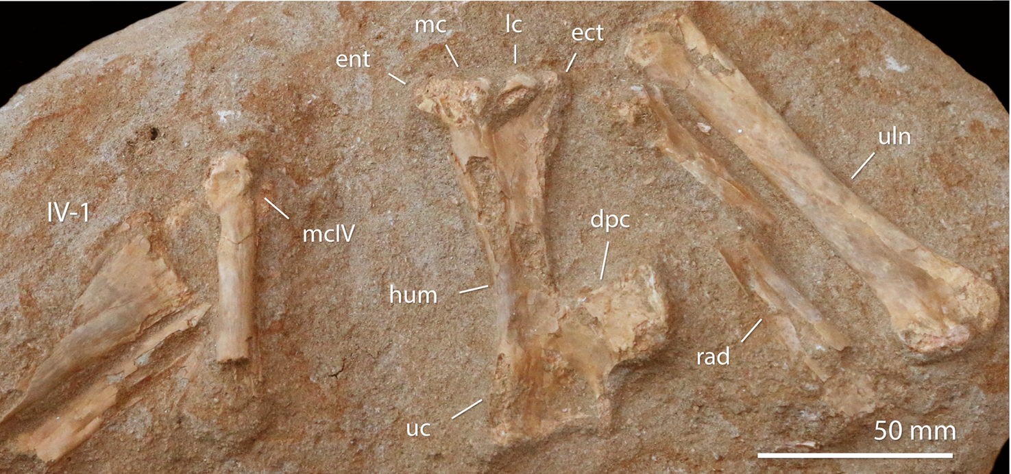 Alcione FSAC-OB 4, partial right wing. Humerus in ventral view, ulna and radius in posterior view, and metacarpal IV and phalanx IV-1 in ventral view. Abbreviations: dpc, deltopectoral crest; ect, ectepicondyle; ent, entepicondyle; hum, humerus; lc, lateral condyle; mc, medial condyle; mcIV, metacarpal IV; IV-1, first phalanx of digit IV; rad, radius; uln, ulna.